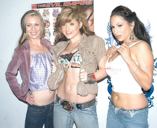 April 11 2007: Evil Angel Party.